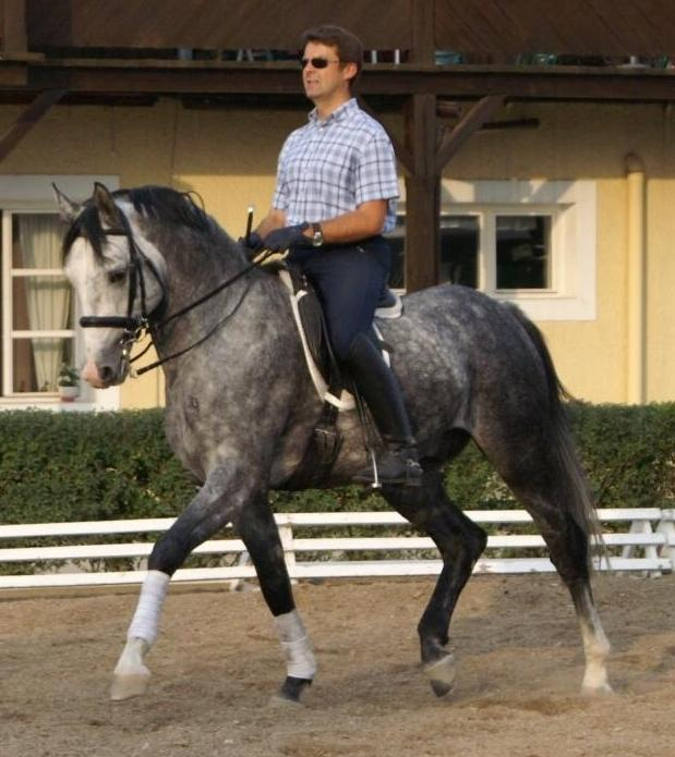 Horse Fabian, Rider Andreas Hausberger